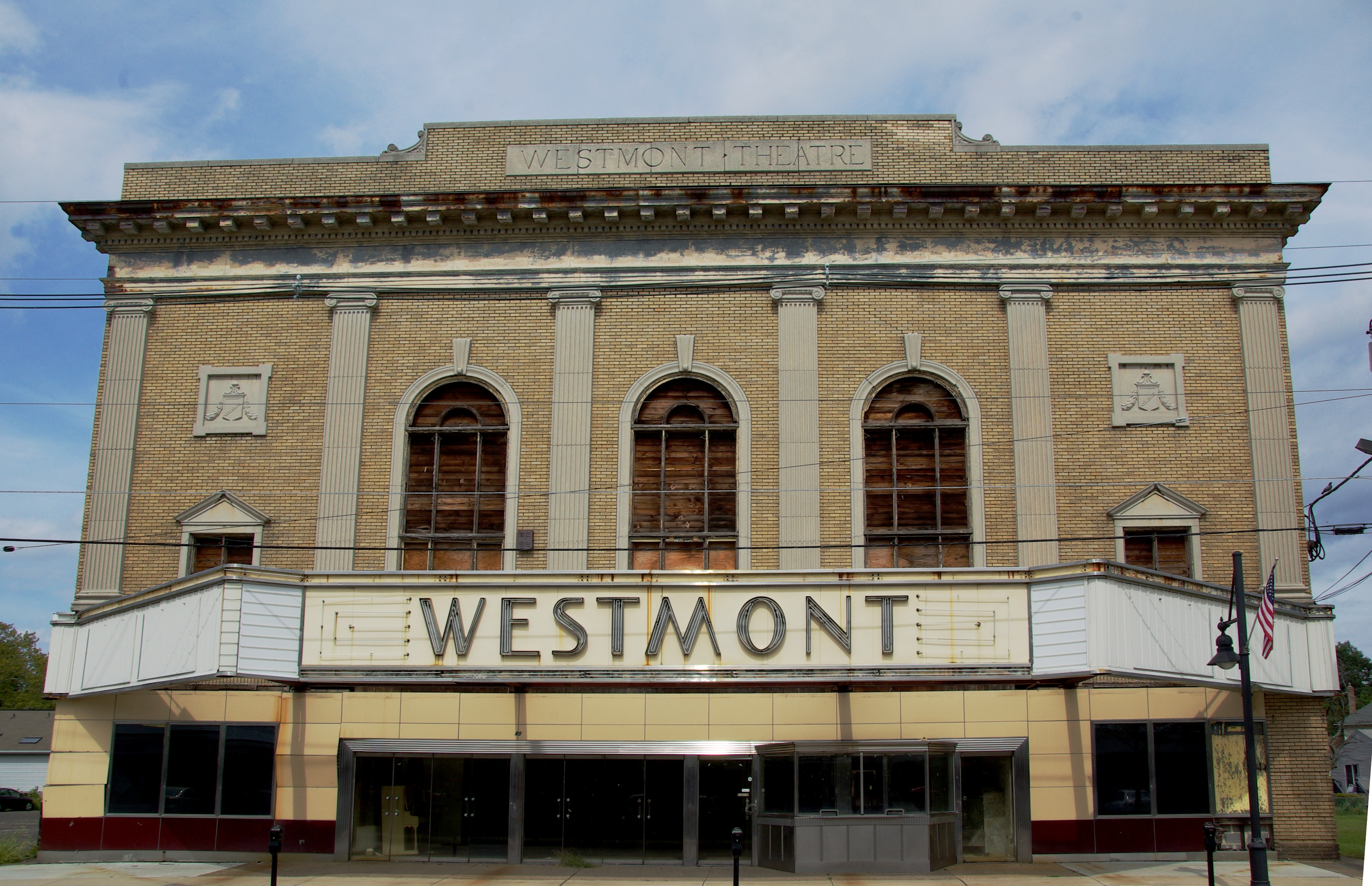 Westmont Theatre, 49 Haddon Ave. Haddon Township